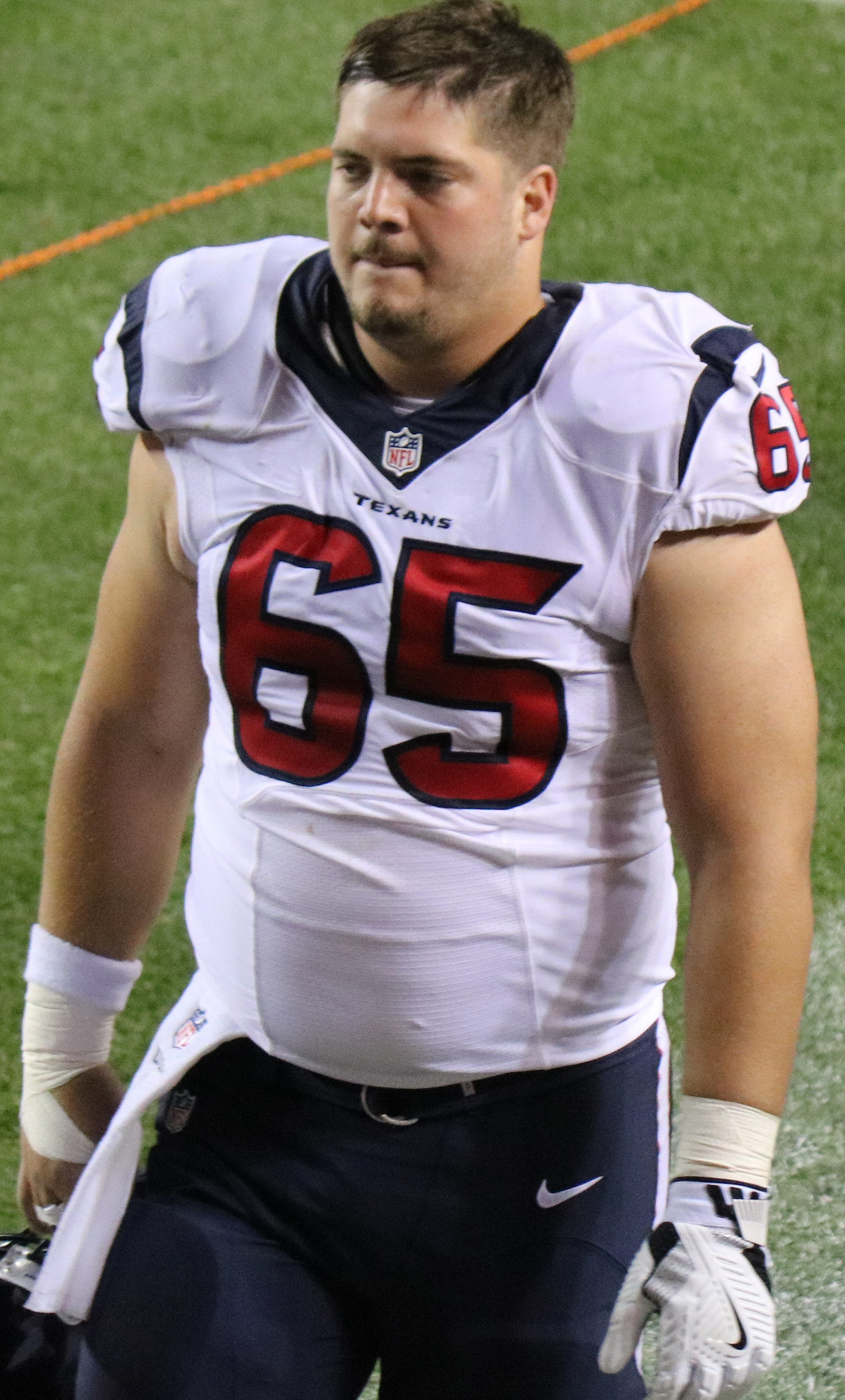 Greg Mancz, a player on the National Football League.